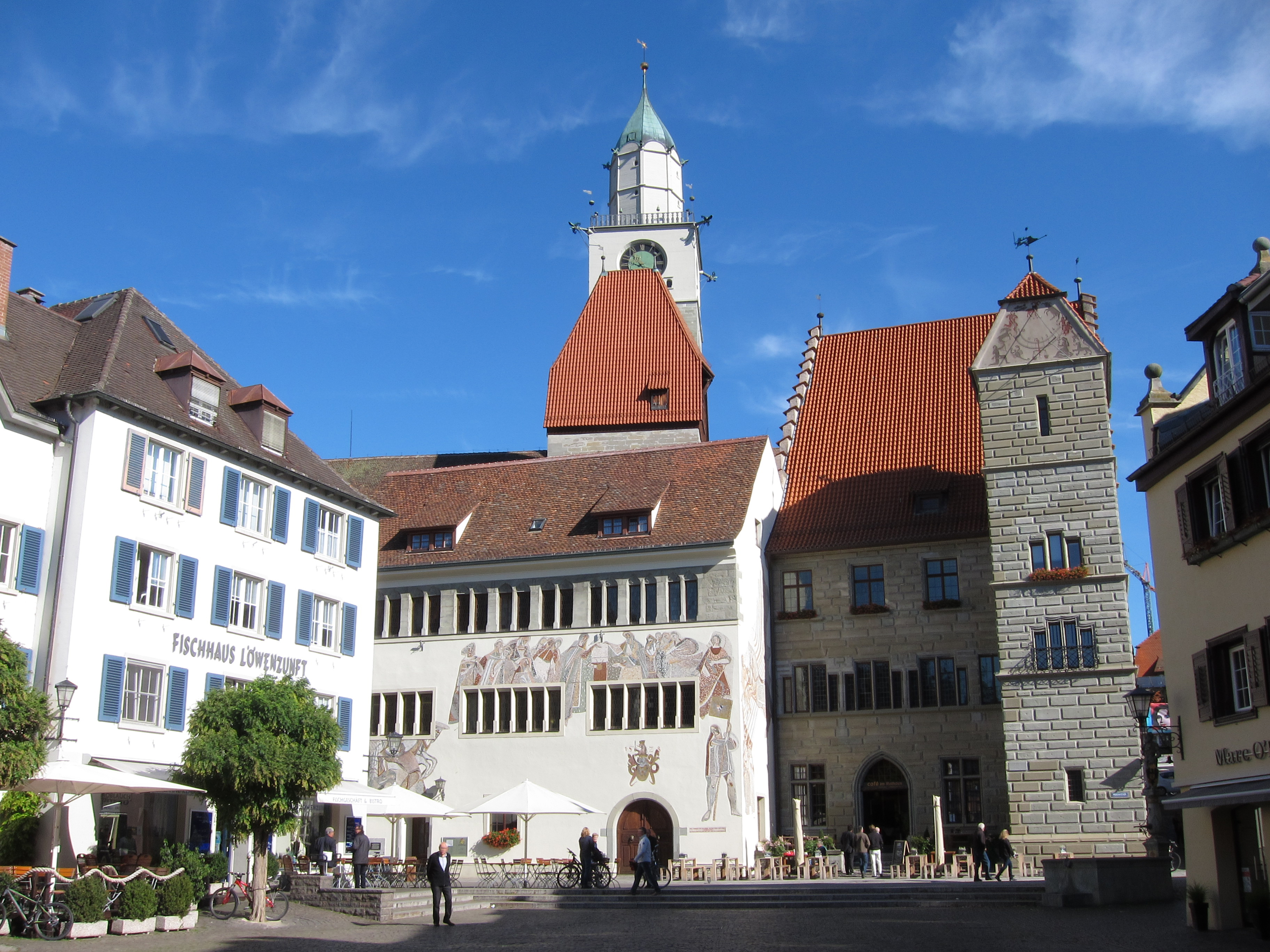 view towards old town of "Überlingen", with Building of Guild of Fish, old town hall, new town hall (containing the council chamber) and then the "Pfennig"-tower on rightside